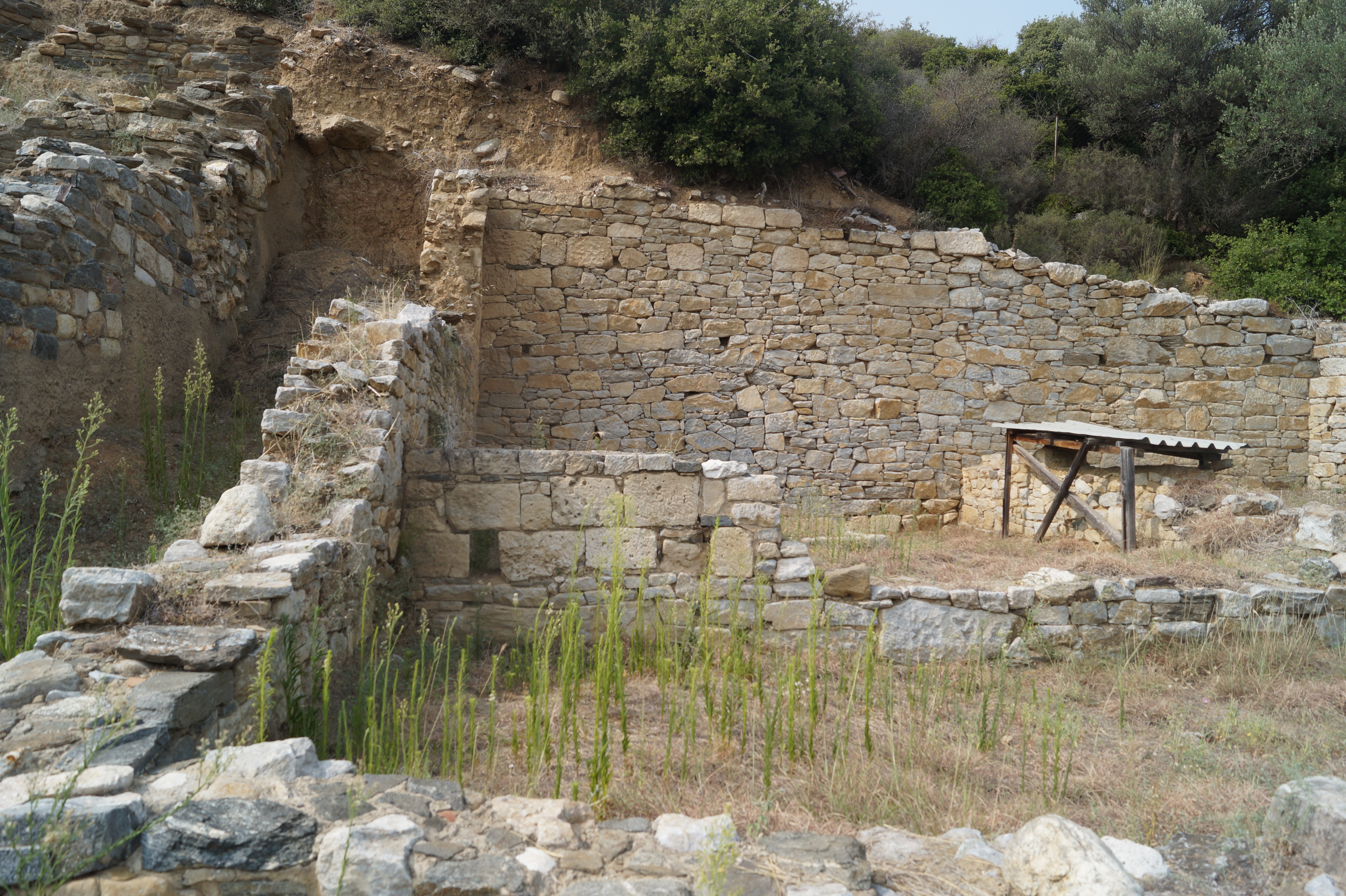 Amphipoli, Makedonia, Greece: House E of Argilos.